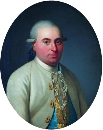 Portrait in the possession of Gyldendal Publishers.